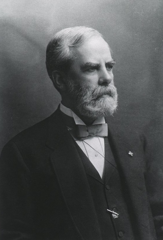 Half-length portrait of Samuel E. Lewis, M.D., in 1904. Dr. Lewis was an Assistant Surgeon with the Army of the Confederate States of America during the American Civil War. After the war, he resumed his medical practice in Washington, D.C., in the United States. He was elected Commander of Charles Broadway Rouss Camp No. 1191 of the United Confederate Veterans (UCV), a veterans organization for those who fought for the Confederacy. Lewis inventoried all Confederate graves at Arlington National Cemetery in early fall 1898 as part of Camp 1191's historic documentation efforts. He discovered 136 identifiable Confederate graves at Arlington, far more than the six or seven cemetery officials had assumed there were. In early 1899, his group discovered another 189 graves in the Soldiers' Home National Cemetery in the District of Columbia. On June 5, 1899, Lewis and other Confederate veterans sent a petition to President William McKinley asking that the Confederate dead at Arlington be disinterred and reburied in a "Confederate section". Congress agreed, and on June 6, 1900, McKinley signed legislation establishing a "Confederate Section" at Arlington National Cemetery.